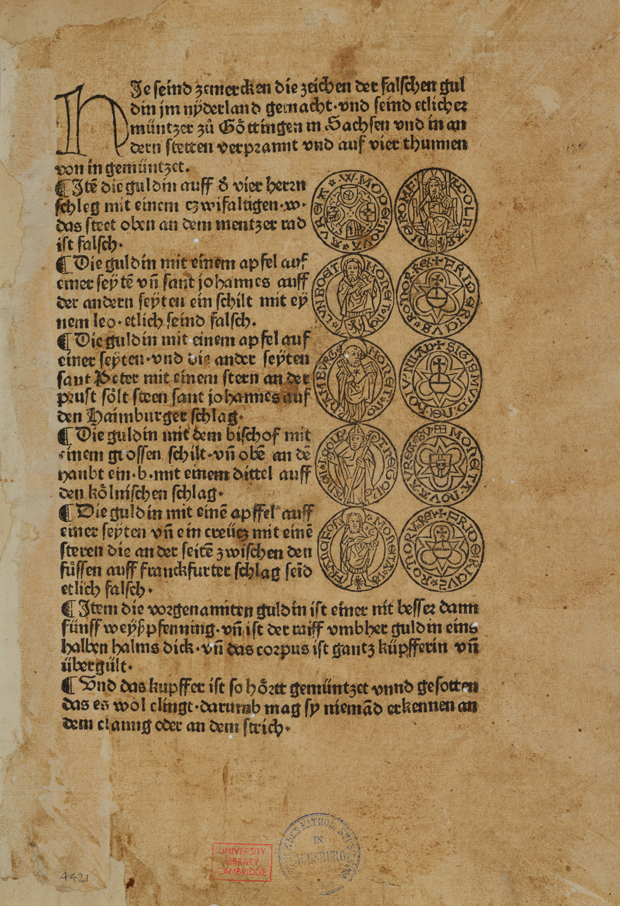 Hie seind zemercken die zeichen der falschen guldin im nyderlandt gemacht. Popular print with a warning against false gold guilders, with ten woodcuts showing front and back sides of five gold guilders. Anton Sorg, Augsburg (Germany), 1482.